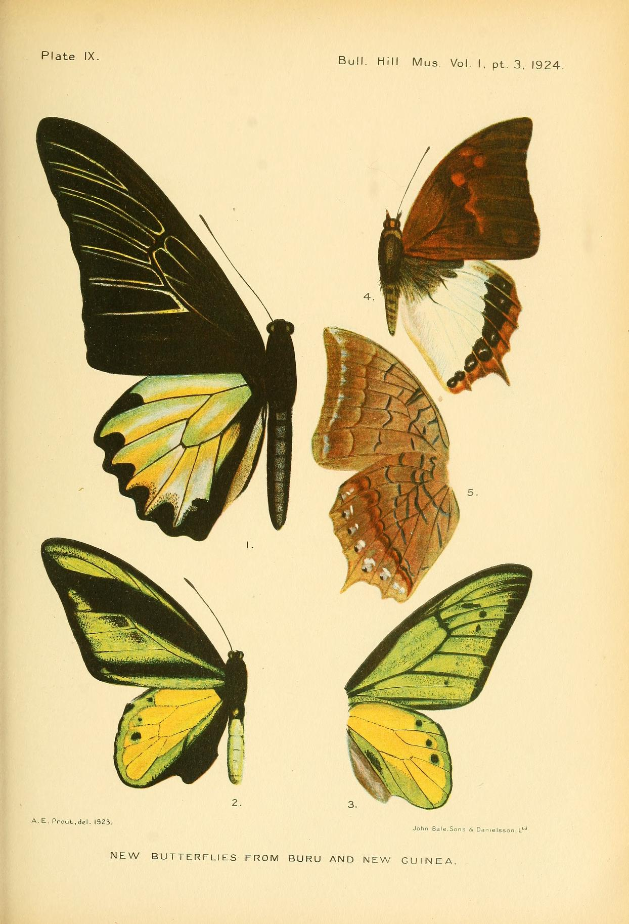 Bulletin of the HillMuseum Volume 1 1924 EXPLANATION OF PLATE IX. Fig.1 Troides prattorum Joicey and Talbot male , Buru 2. T. chimaera dracaena J. and T. male , Dutch New Guinea 3. T. chimaera dracaena male under 4. Charaxes madensis Roths. male , Buru 5. Charaxes madensis Roths. male under